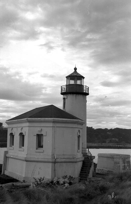 Coquille River Lighthouse, Bullards State Park, Bandon, Oregon in reverse image